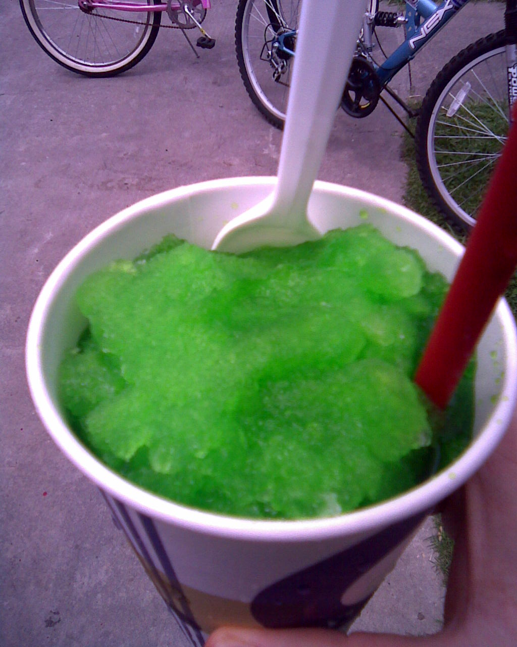 A "snowball" in Lafayette, Louisiana; soft shaved ice and flavored syrup or creamed flavoring